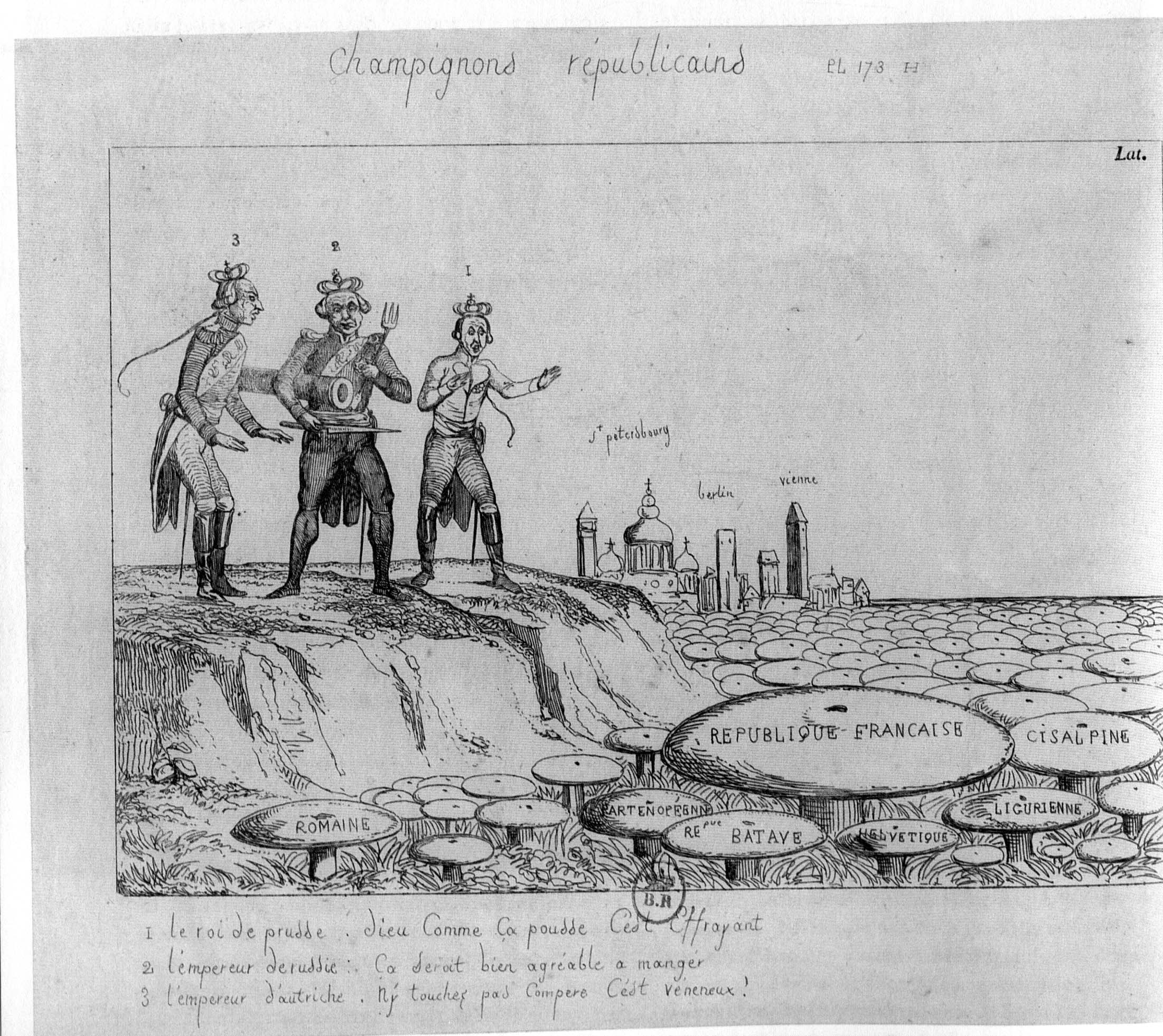 "champignons républicains" (republican i.e. revolutionary mushrooms) - French political caricature, a. 1799. The monarchies of Europe, personified by the rulers Russia, Prussia and Austria and their capitals Saint Petersburg, Berlin and Vienna, watch how after the rise of the French First Republic, all over Europe republics with French support spring up like mushrooms. The Prussian king exclaims: 'God, how quick they rise, it's frightening!' The Russian tsar says, fork and knife ready: 'That will be nice to eat!' The Austrian emperor warns him: 'Don't touch them, godfather, they are poisonous!' The Russian tsar has only recently joined the Second Coalition against France (1798) and hungers for conquest, whilst both German princes have already learnt their lesson after their many defeats in the War of the First Coalition (1792–1797).